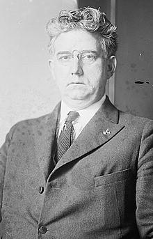 Michael J. Hogan, Congressman from New York